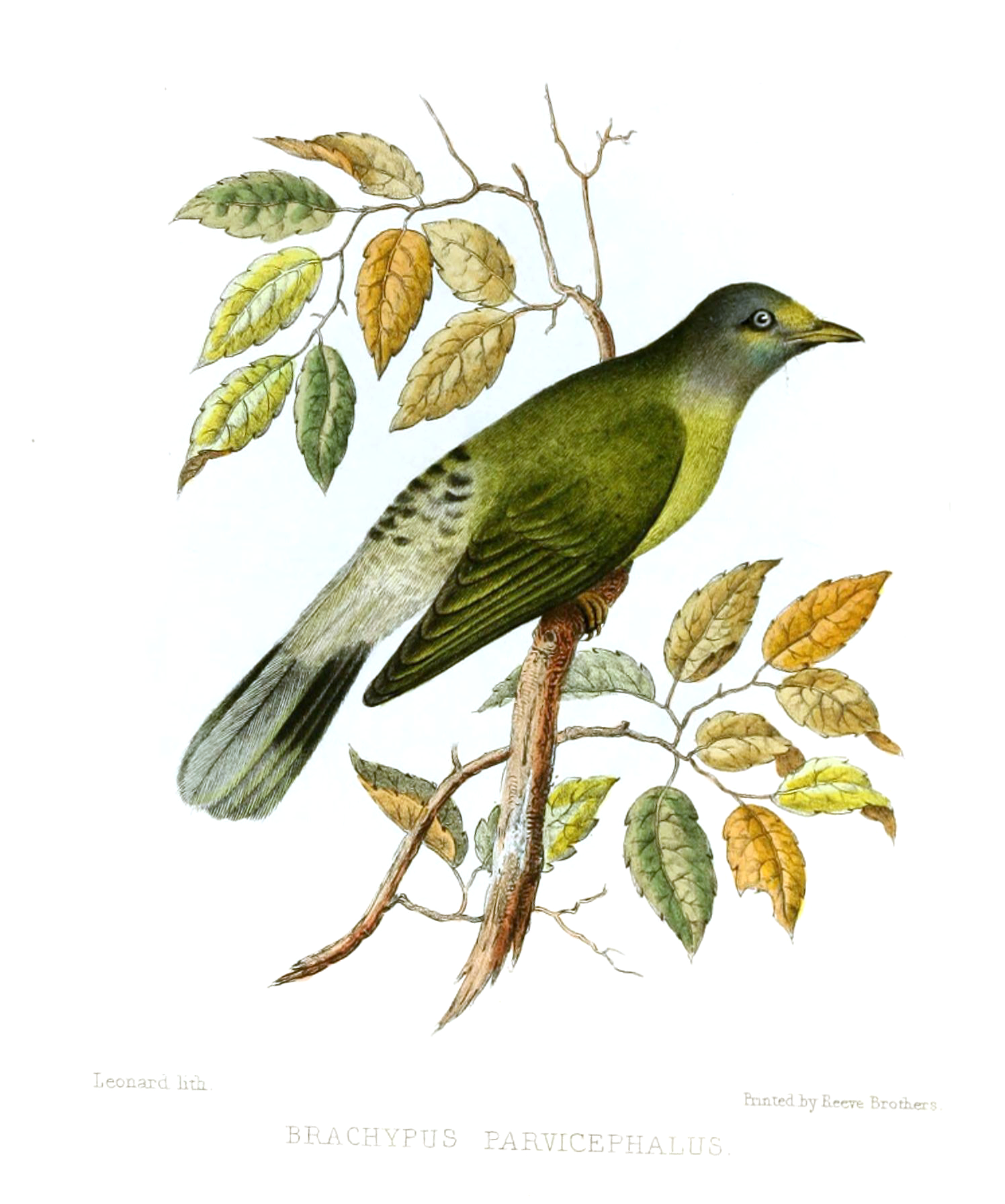 Pycnonotus priocephalus